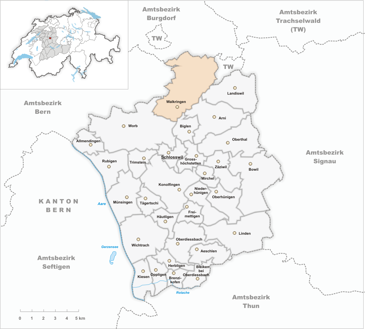 Municipality Walkringen